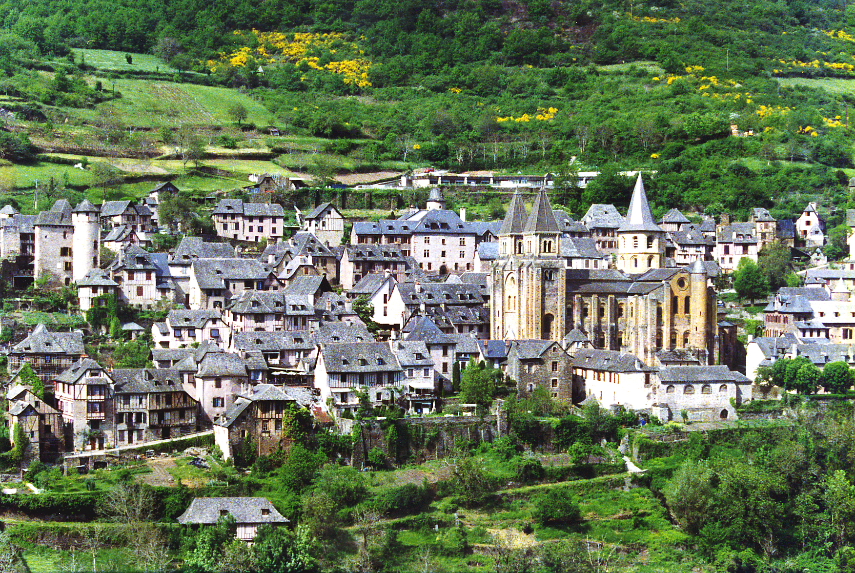 Saint Foy abbey-church in Conques, France